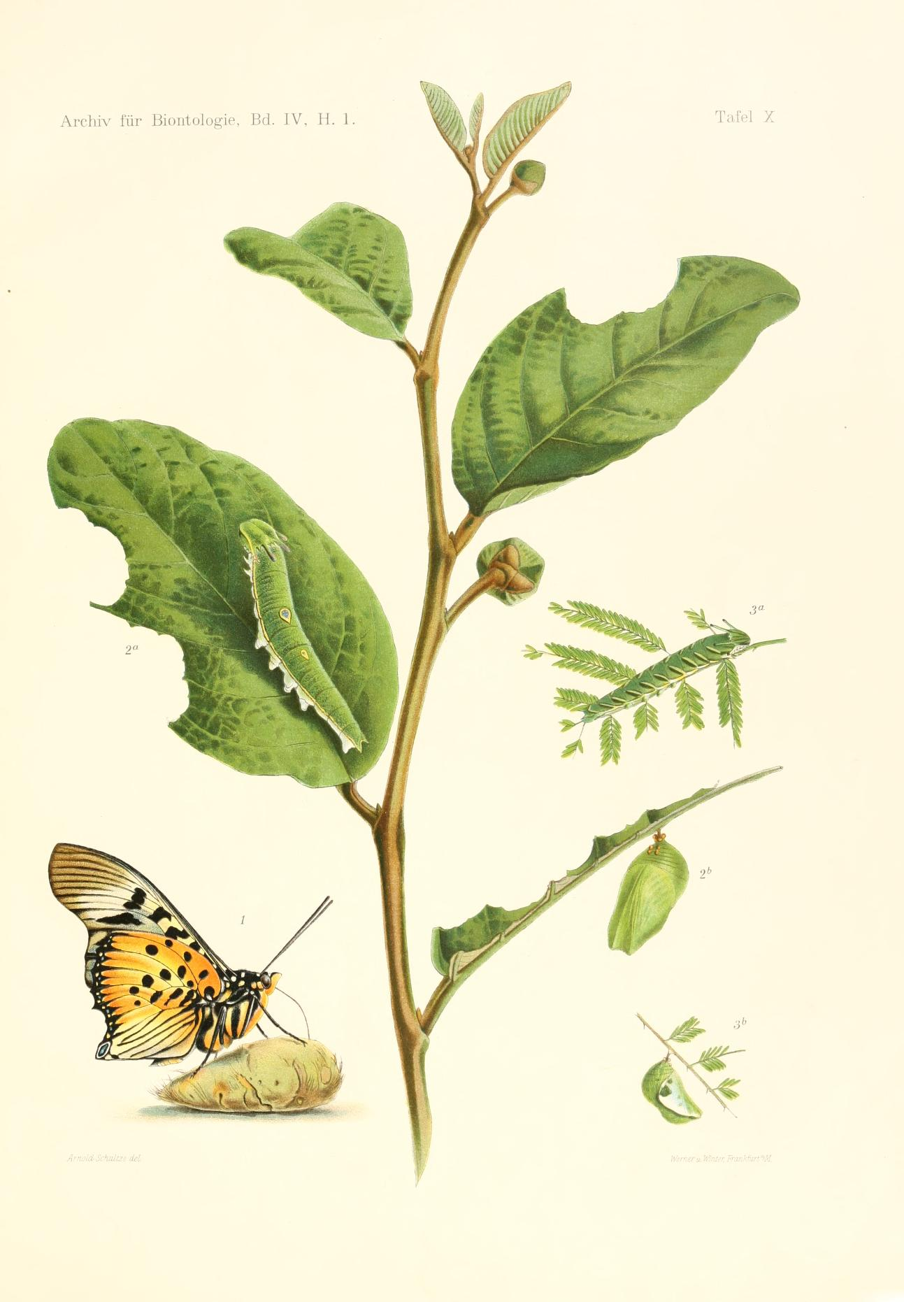 Arnold Schultze, 1917 Die charaxiden und apaturiden der kolonie Kamerun : eine zoogeographische und biologische studie / von Arnold Schultze. Mit tafel IX-XIV, 1 karte und 2 textfiguren.Berlin,Gesellschaft Naturforschender Freunde zu Berlin,1916 Tafel 10 1 Charaxes acraeoides Druce imbibing Zibetkatzen (Viverrinae) excretion 2a Last instar larva of Charaxes jasius L. var. saturna Butler 2b Pupa of Charaxes jasius L. var. saturna, the foodplant is Anona senegalensis 3a Last instar larva of Charaxes lichas Doubleday 3b Pupa of Charaxes lichas Doubleday , the food plant is Acacia sp.